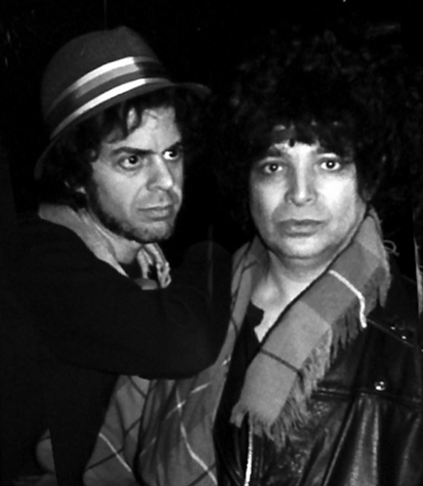 Crop of photo of band Suicide (Martin Rev, Alan Vega), who posed before concert in Toronto, Ontario, Canada, 1988. Photo taken with an anamorphic lens.